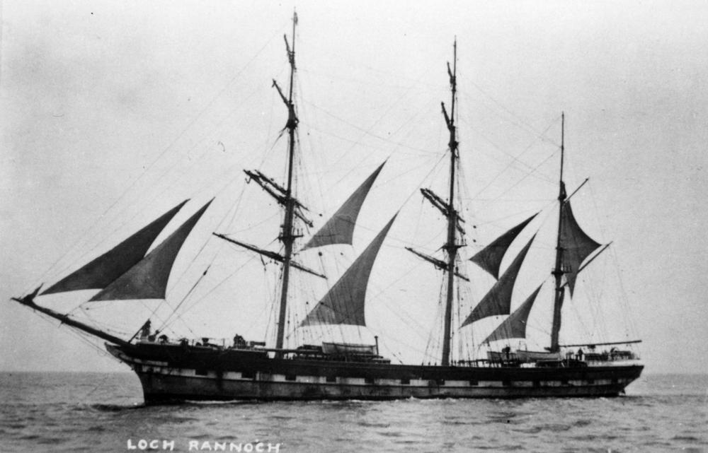 Loch Rannoch (ship)